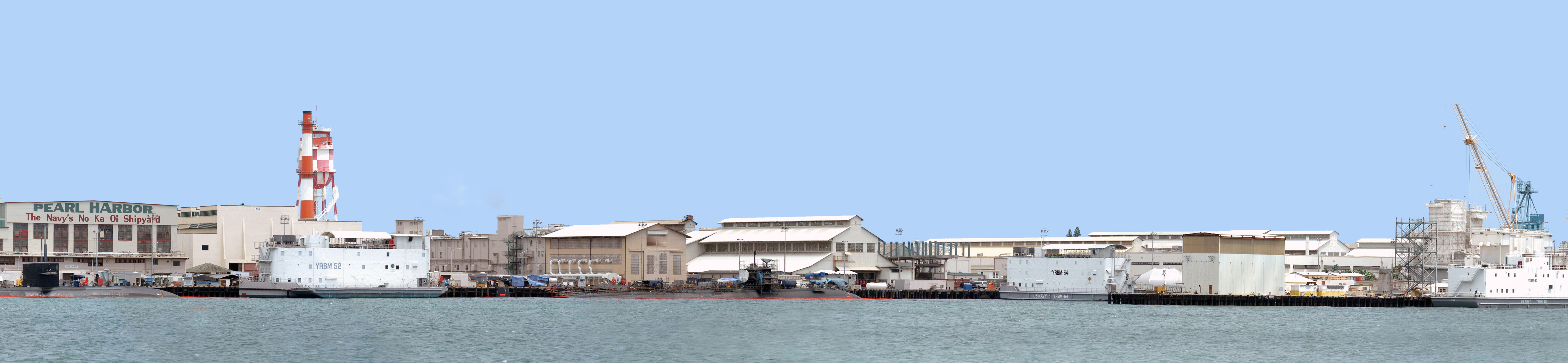 060713-N-4003L-106 PEARL HARBOR - Pearl Harbor Naval Shipyard as seen from Ford Island.